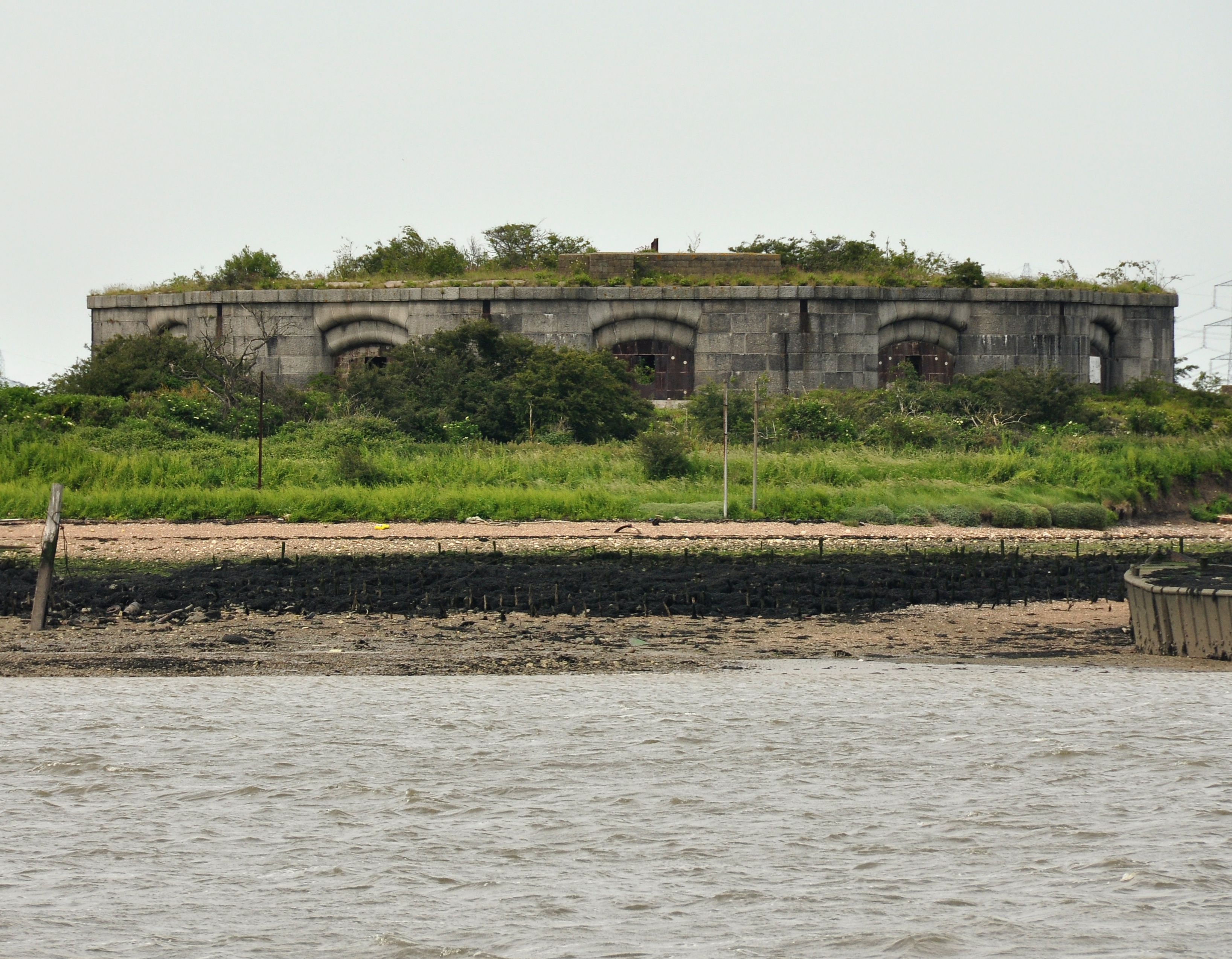 Hoo Fort, on an island in the Medway Estuary, Kent.